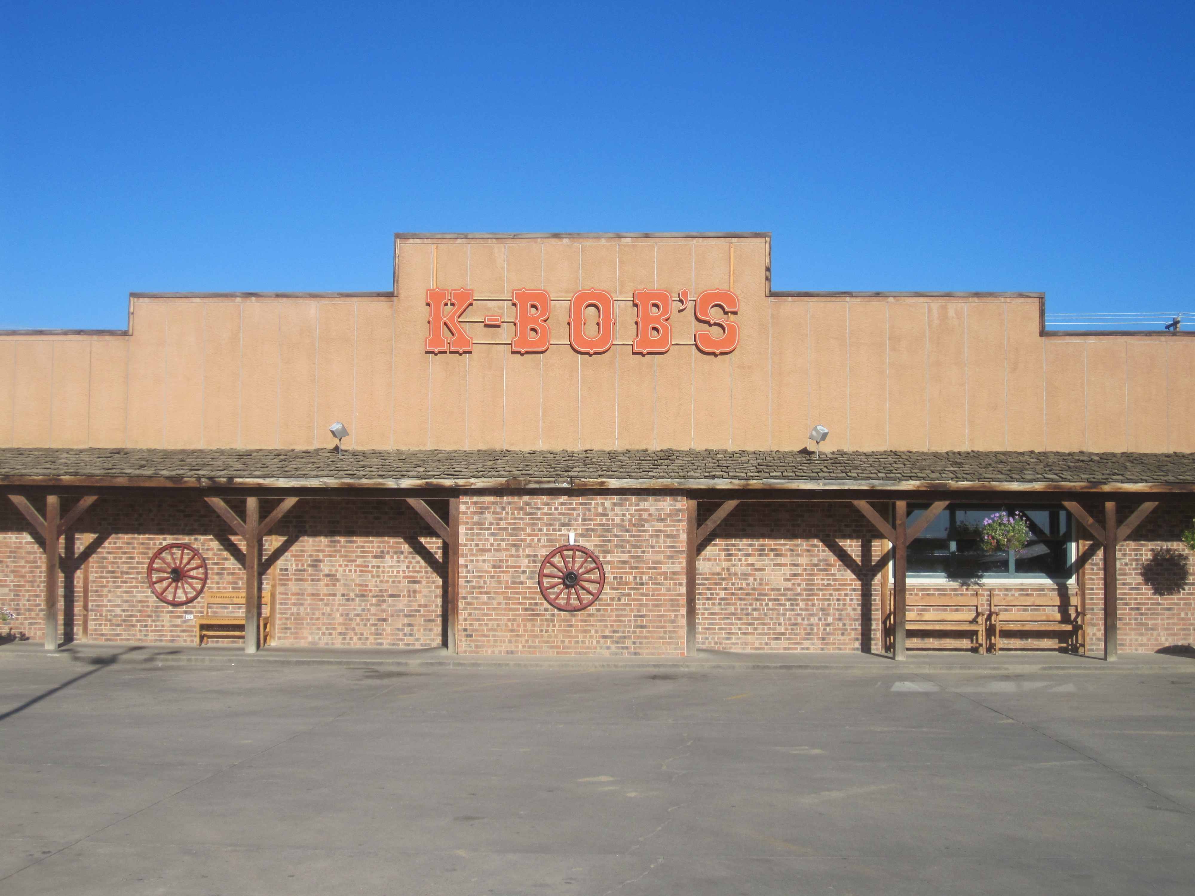 I took photo in Raton, NM, with Canon camera.